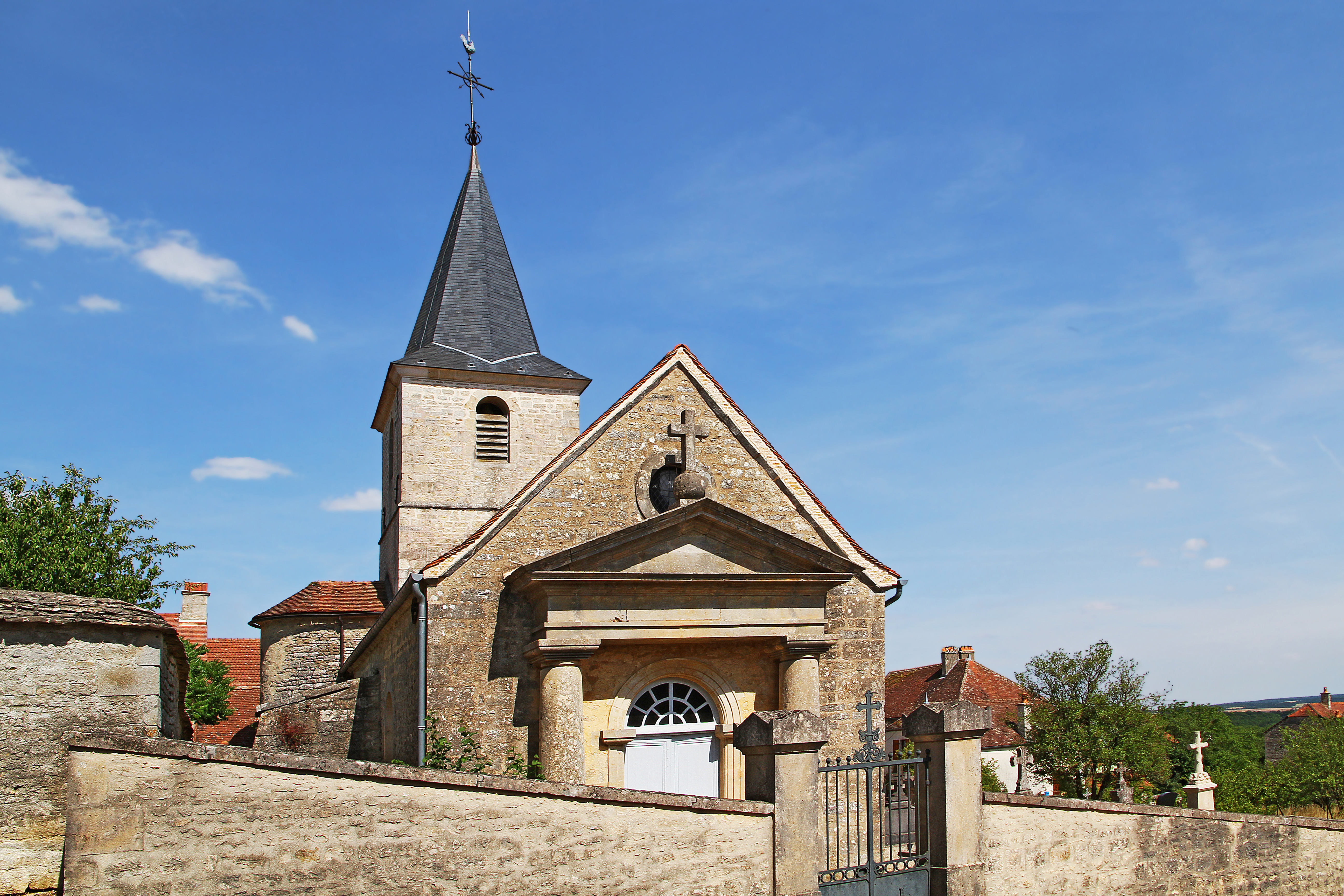 Church of the Nativity of Saint Mary and its close in Meulson